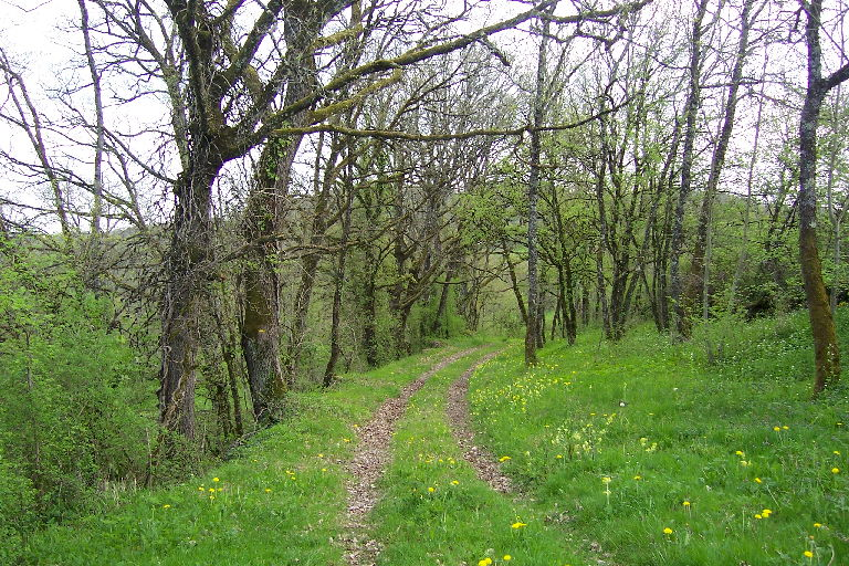 Way near place called "le Vic" in town Sonac in Lot department in France.